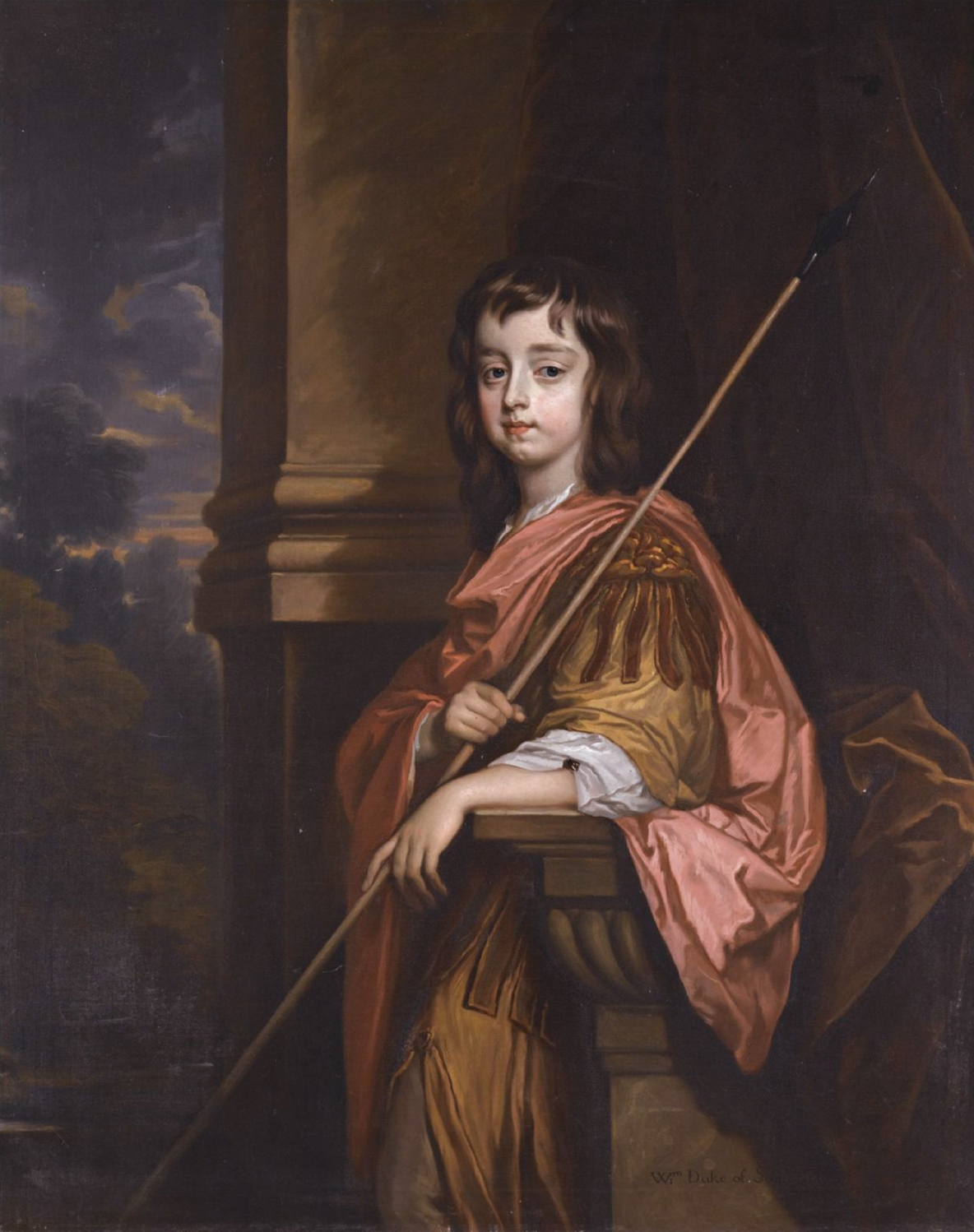 William Seymour, 3rd Duke of Somerset (ca 1650-1671) 127 by 101.5 cm inscribed lower right with the identity of the sitter oil on canvas